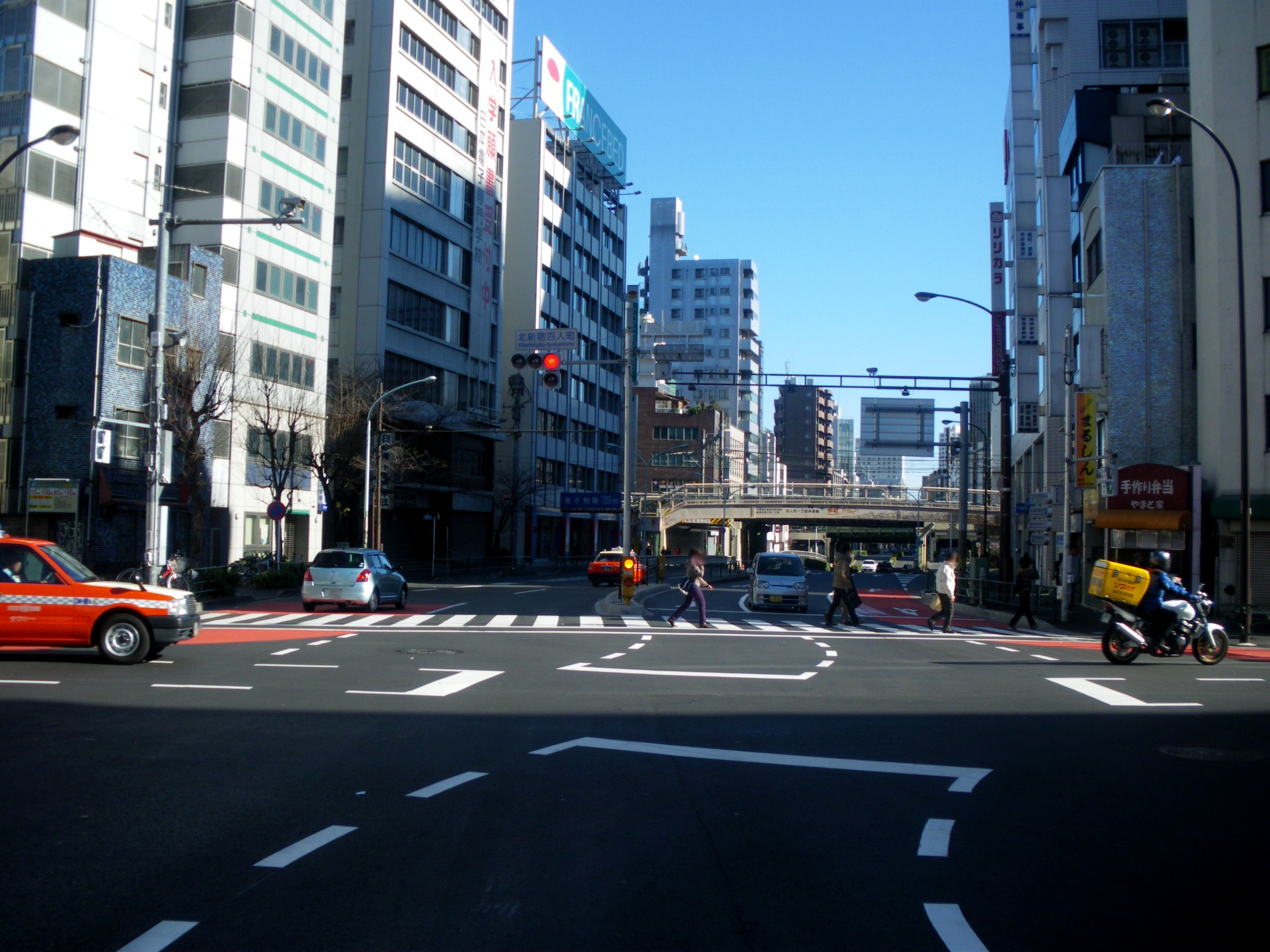 A photo of Kitashinjuku hyakunincho intersection, which is the intersection of Shokuan Dori Street(Zeimusho Dori Street) and Otakibashi-Dori Street,located in Shinjuku-ku,Tokyo,Japan.